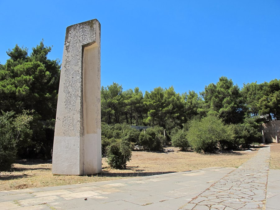 Šubićevac Memorial Park, Šibenik.